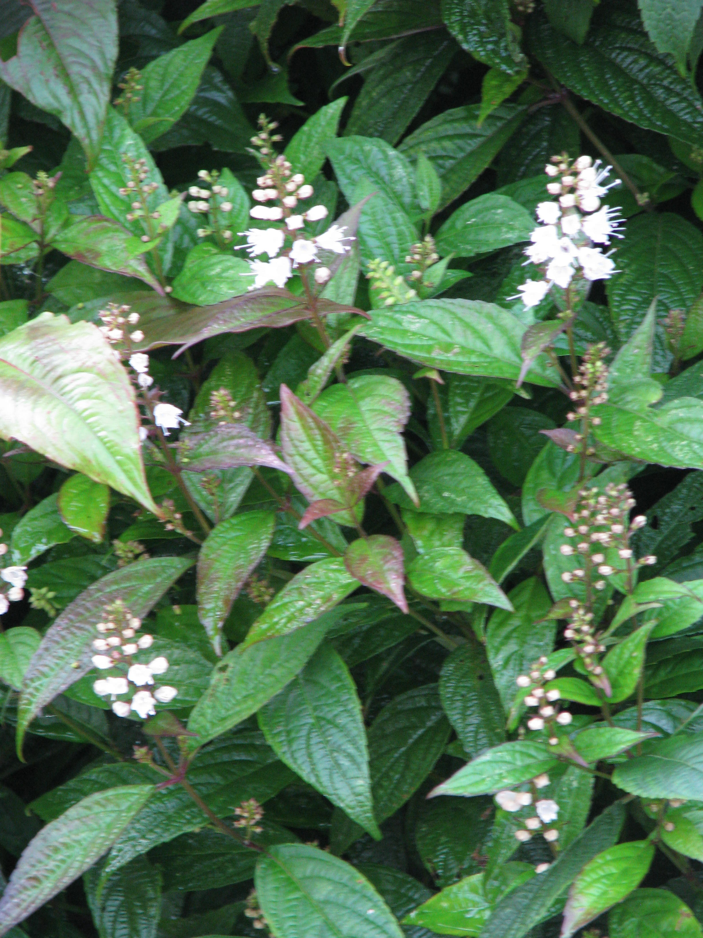 A really pretty late flowering perennial